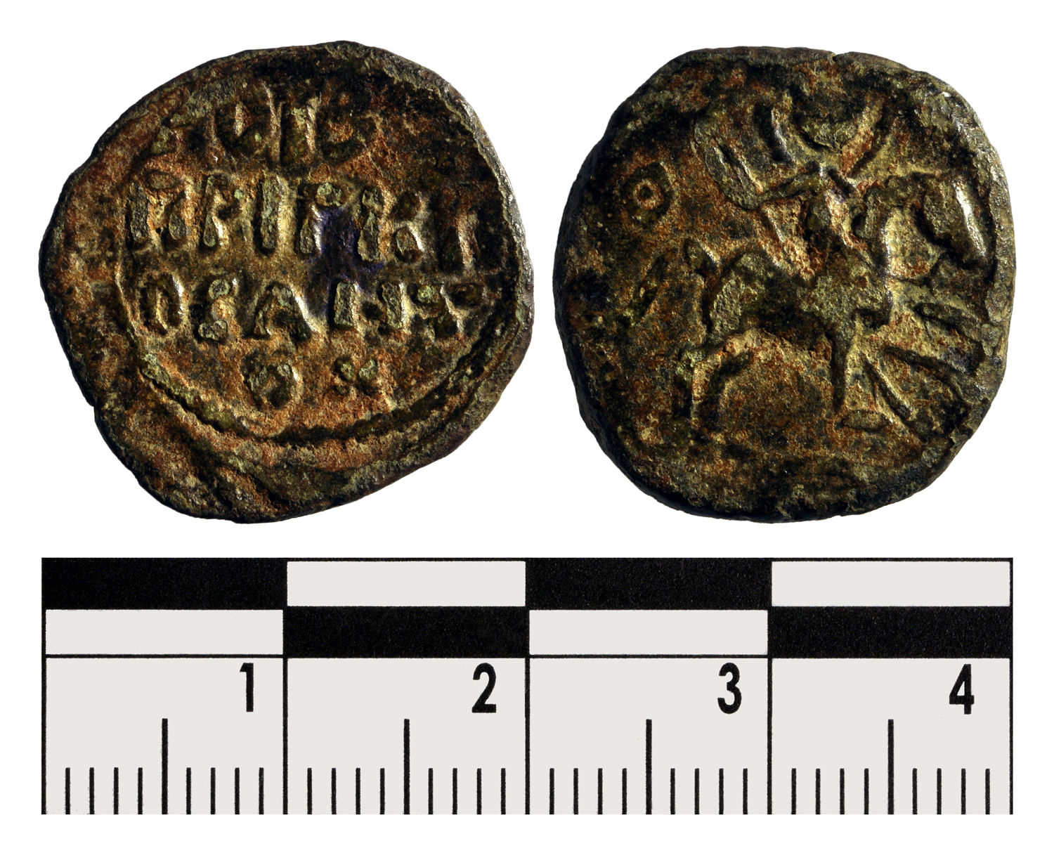 Copper coin of Roger of Salerno issued during his reign (1112-1119). The use of copper implies that Byzantine influence persisted over the Principality of Antioch's coinage at this time. The coin is also notable for bearing one of the earliest images of St. George and the dragon on a coin.